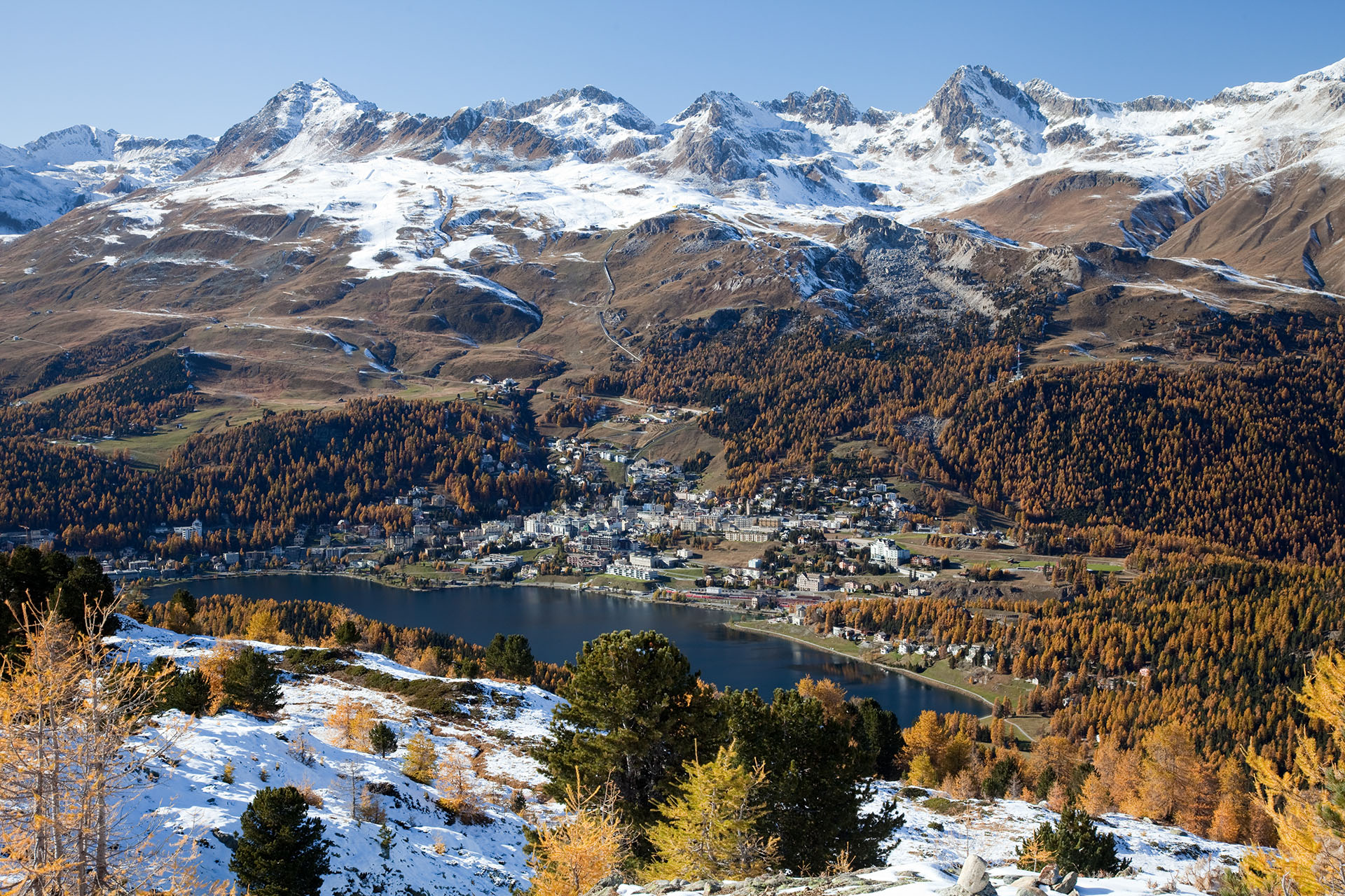 View of St. Moritz and its lake, as seen from Muottas da Schlarigna, Grisons. Switzerland. On the left is Piz Nair (3056 m), to the right is Piz Saluver (3159 m)